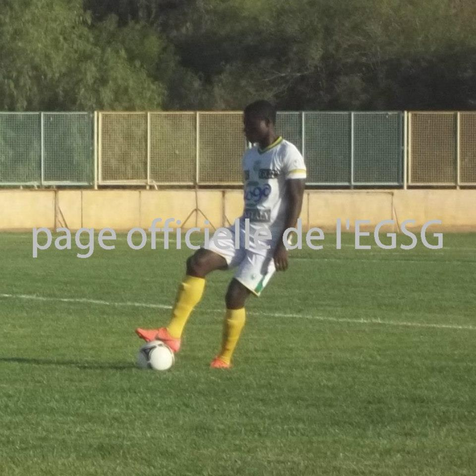 first match of the league